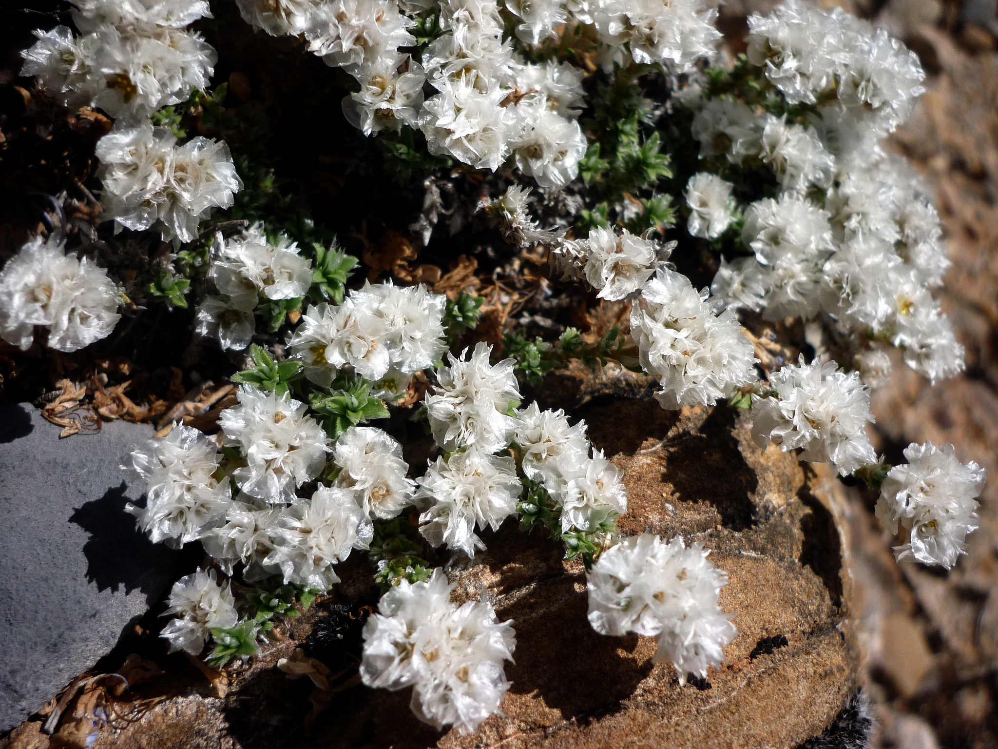 Paronychia kapela. In la Baronia de Rialb (Noguera-Catalunya). To 900 m. altitude